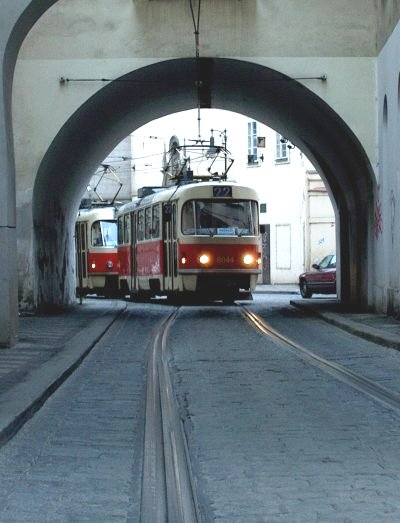 T3M tram on dual gauge track at Malá strana, Prague